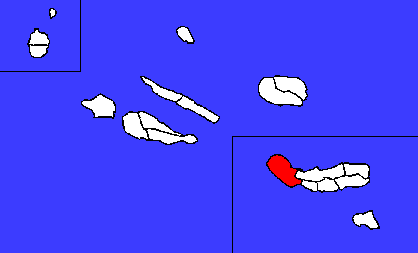 Location of the Portuguese municipality of Ponta Delgada within the Azores archipelago. Made by Afonso Silva.